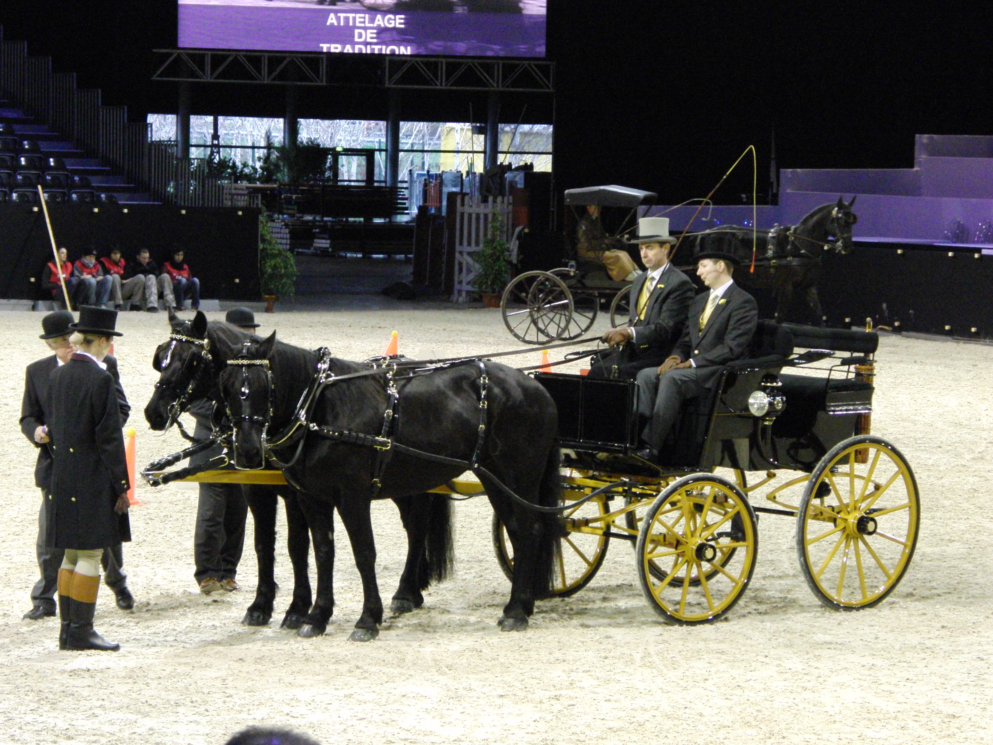 Horse driving - Mérens - Paris' Cup d'attelage de tradition - Salon du cheval de Paris 2009, France